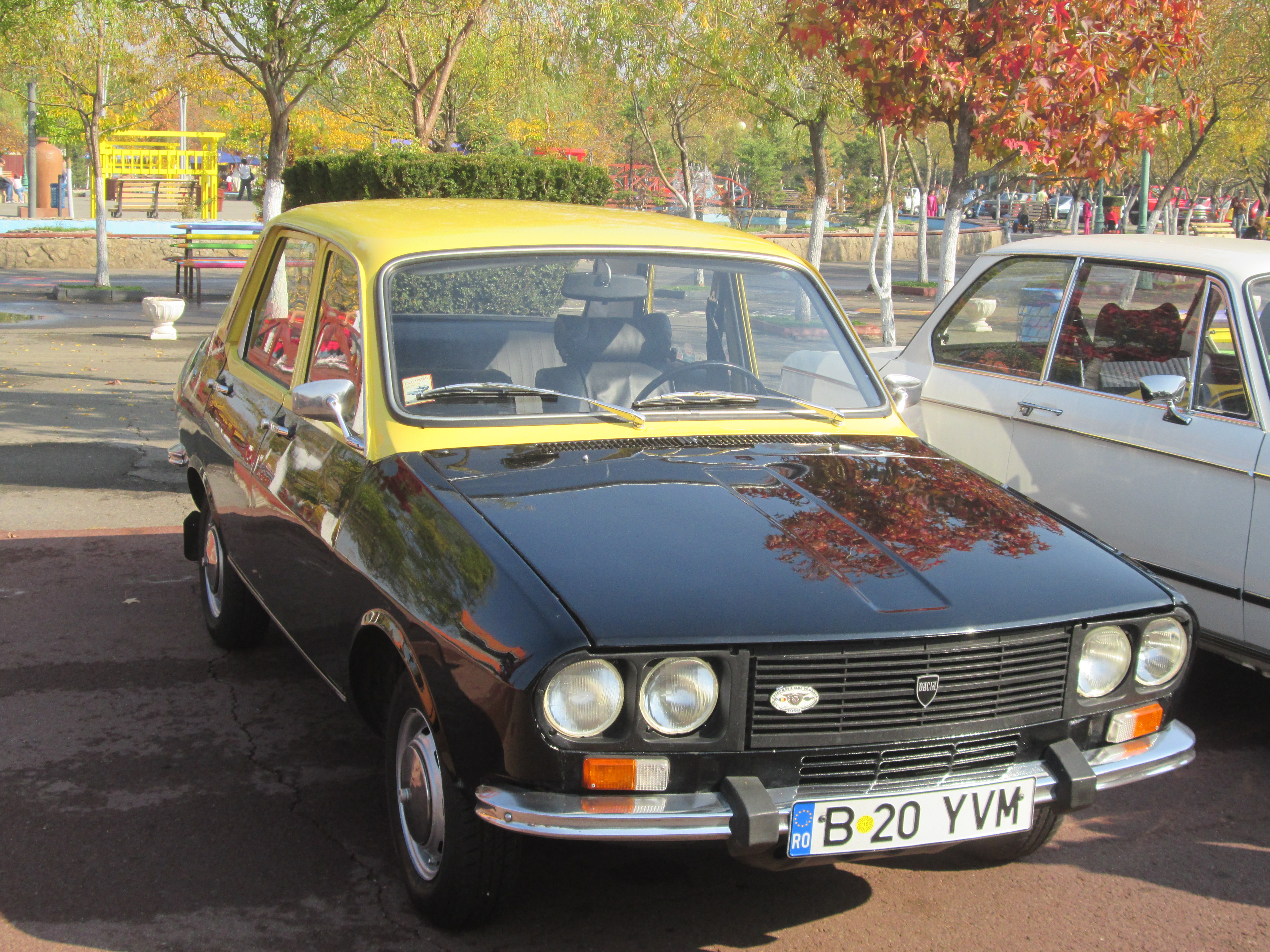 1982 Dacia 1310 (Colombian Domestic Market, Taxi version) at the Autumn Retroparade, Bucharest